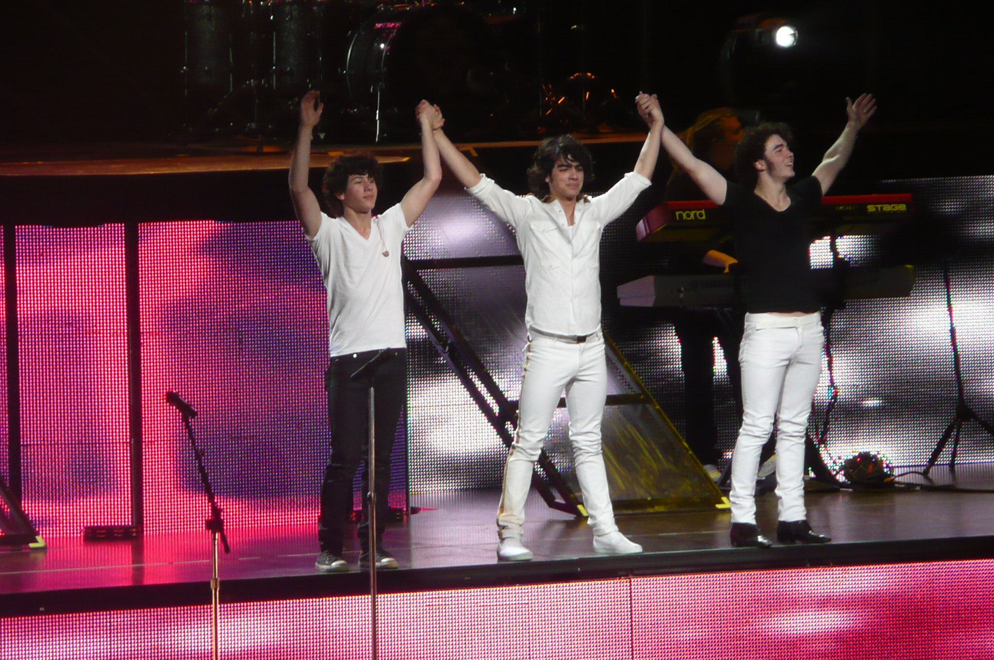 Jonas Brothers in concert 2008